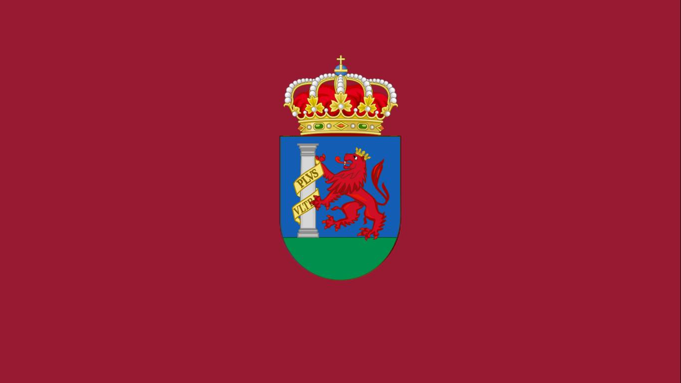 Flag and Coat of Arm of Badajoz.